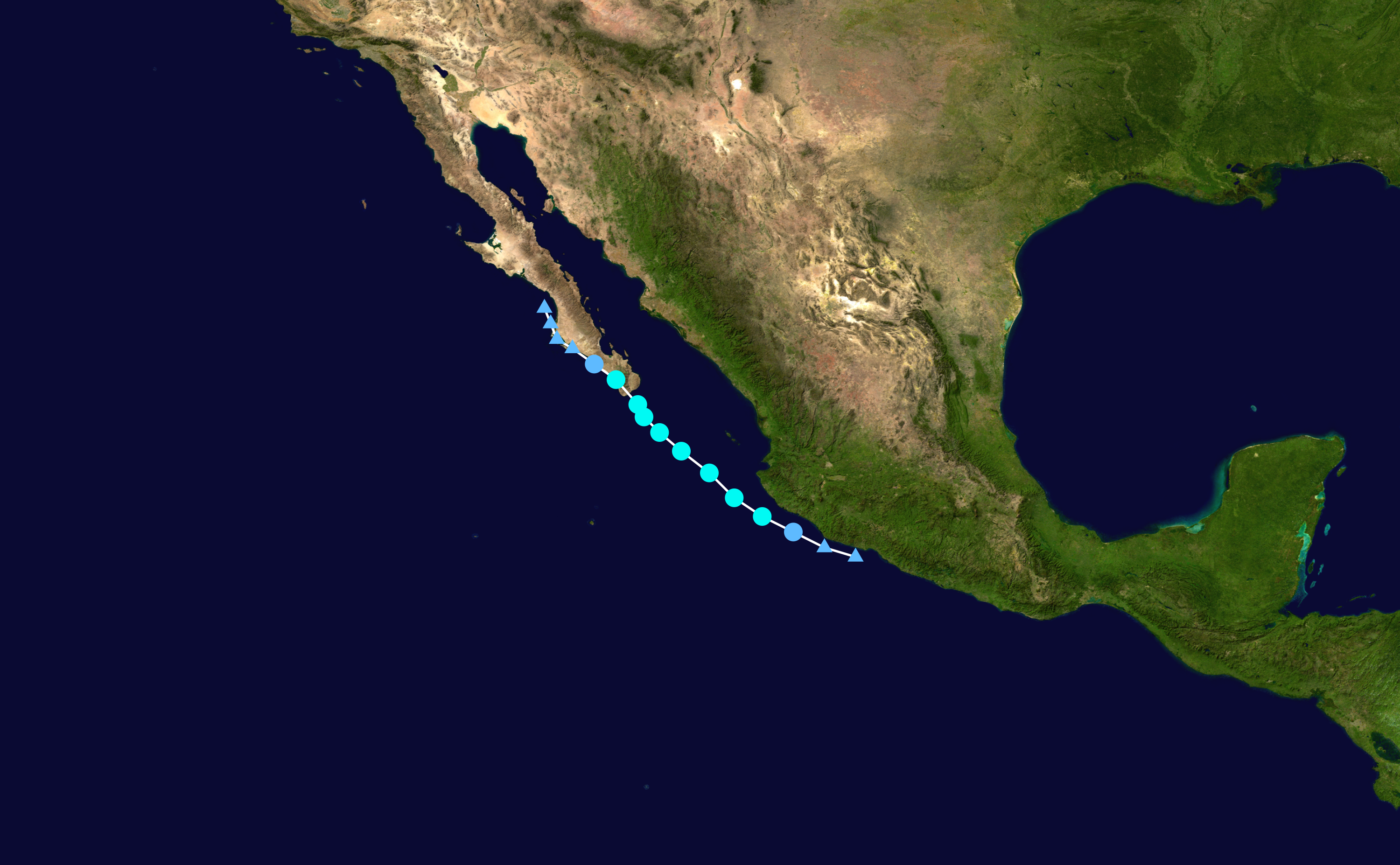 Track map of Tropical Storm Javier of the 2016 Pacific hurricane season. The points show the location of the storm at 6-hour intervals. The colour represents the storm's maximum sustained wind speeds as classified in the Saffir–Simpson scale (see below), and the shape of the data points represent the nature of the storm, according to the legend below. Saffir–Simpson scale Tropical depression≤38 mph≤62 km/h Category 3111–129 mph178–208 km/h Tropical storm39–73 mph63–118 km/h Category 4130–156 mph209–251 km/h Category 174–95 mph119–153 km/h Category 5≥157 mph≥252 km/h Category 296–110 mph154–177 km/h Unknown Storm typeTropical cycloneSubtropical cycloneExtratropical cyclone / Remnant low / Tropical disturbance